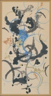 Abstract paintiung